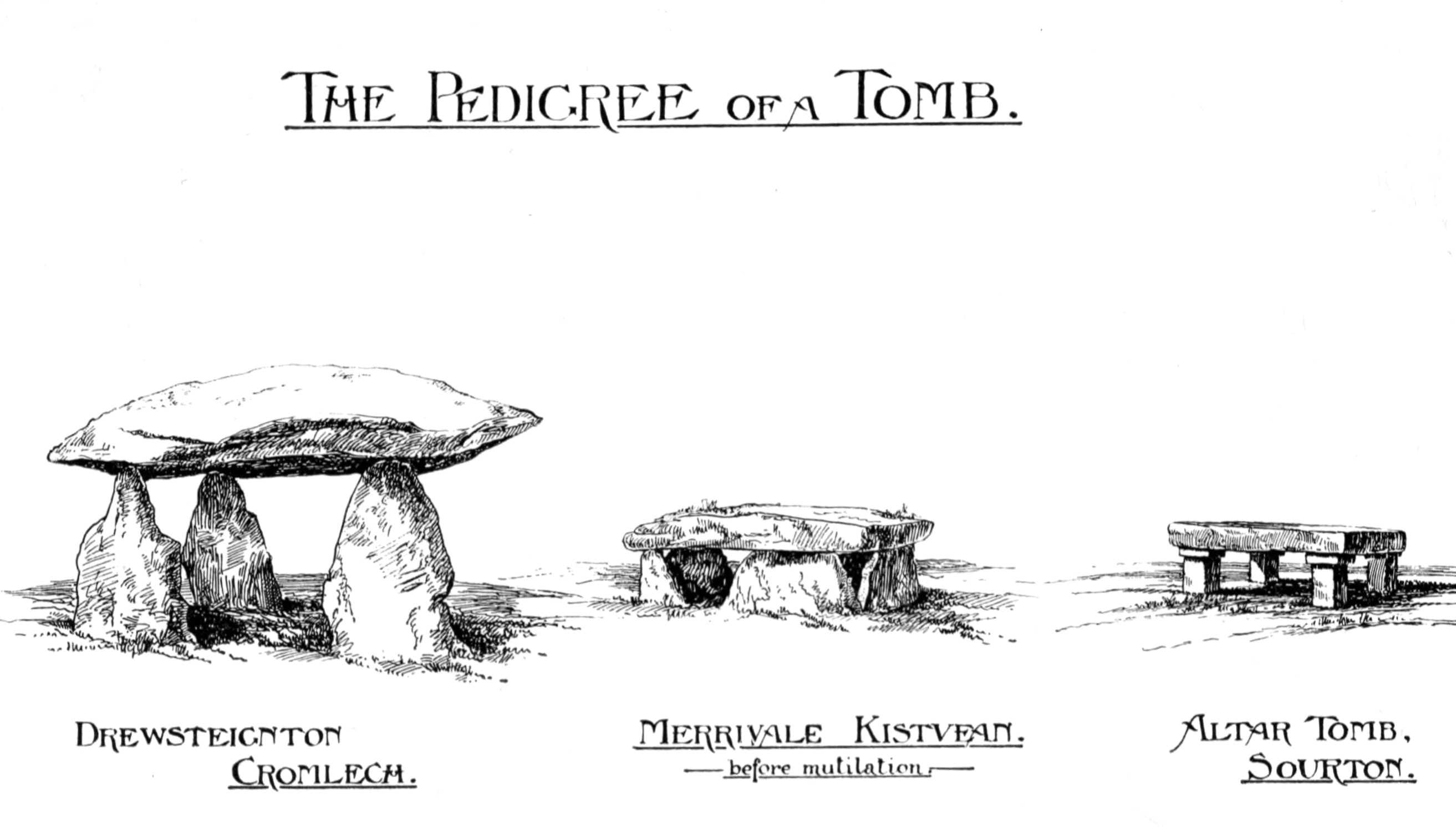 Image from a scanned version of "A Book of Dartmoor" from by Sabine Baring-Gold, published in 1907 and in the Public Domain. Image has been cropped, exposure adjusted and sepia tones removed.